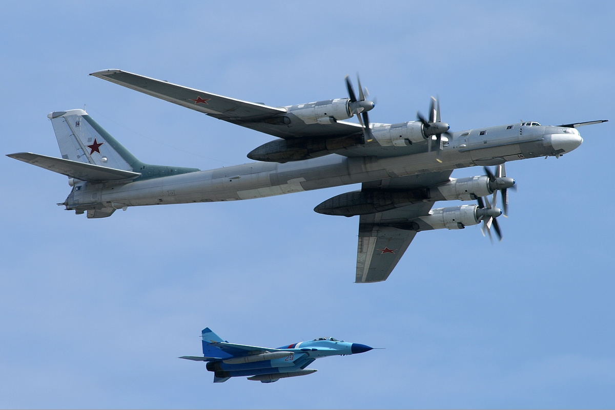 Tupolev Tu-95 flying over Moscow as part of the 2008 Victory Day Parade